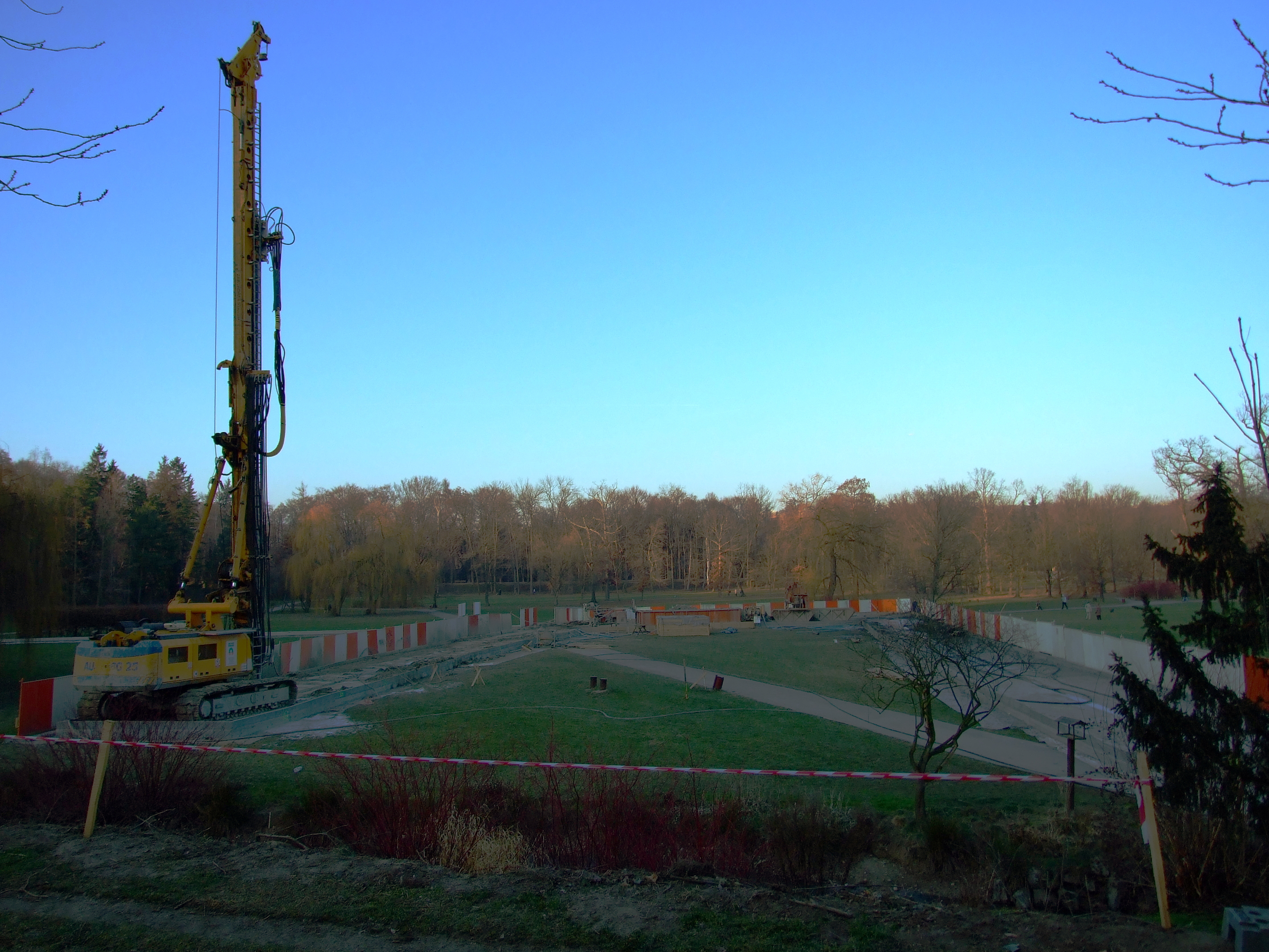 Blanka tunnel in Prague under construction